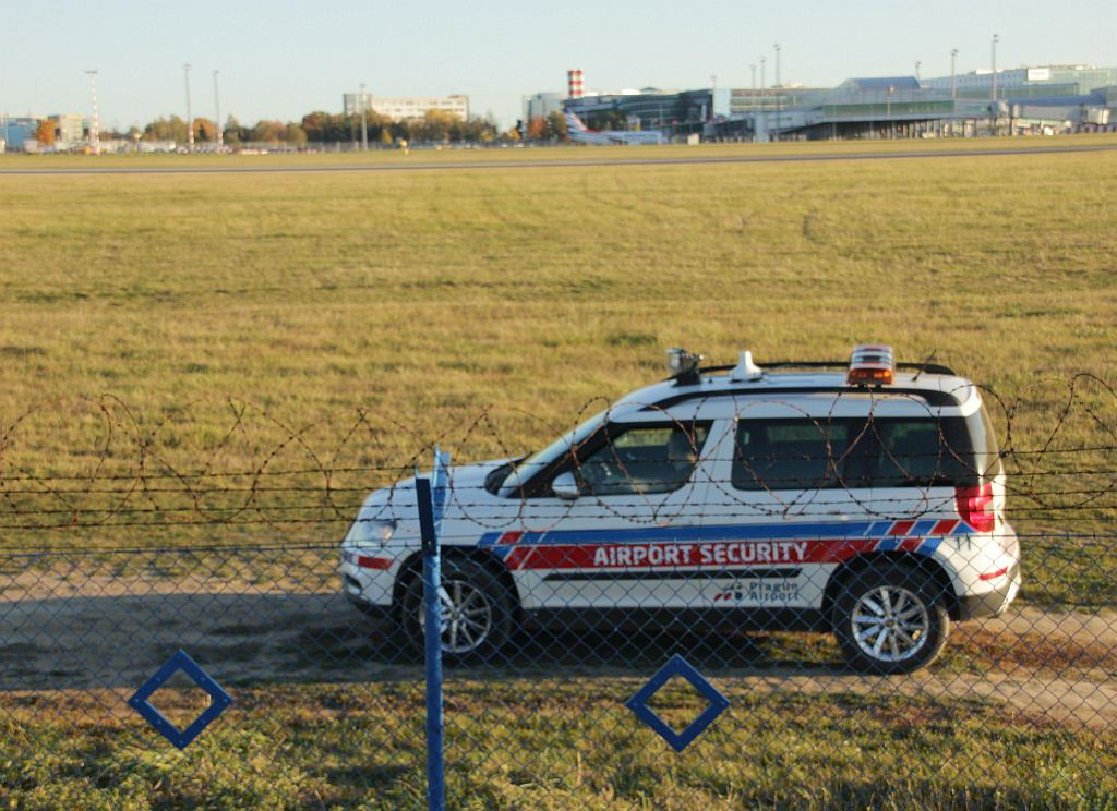 Airport security car behind a wire fence-bordered area of the airport.